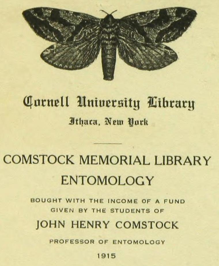 A descriptive catalogue of the geodephagous Coleoptera inhabiting the United States east of the Rocky Mountains. Read May 25, 1846.